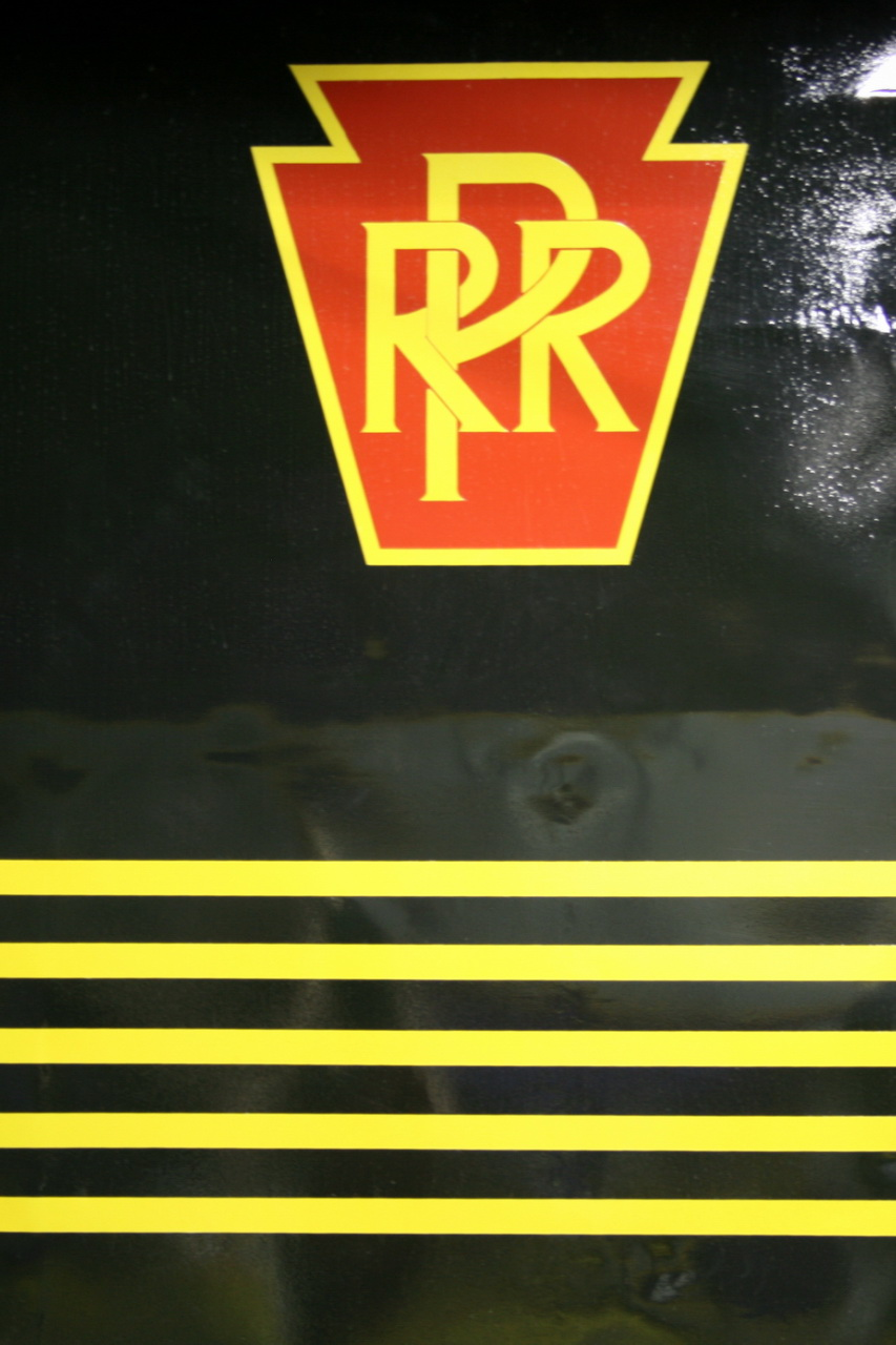 No. 4859, built in 1937, is on display at Harrisburg (Pa.) Transportation Center, Amtrak Station -- the official state electric locomotive.